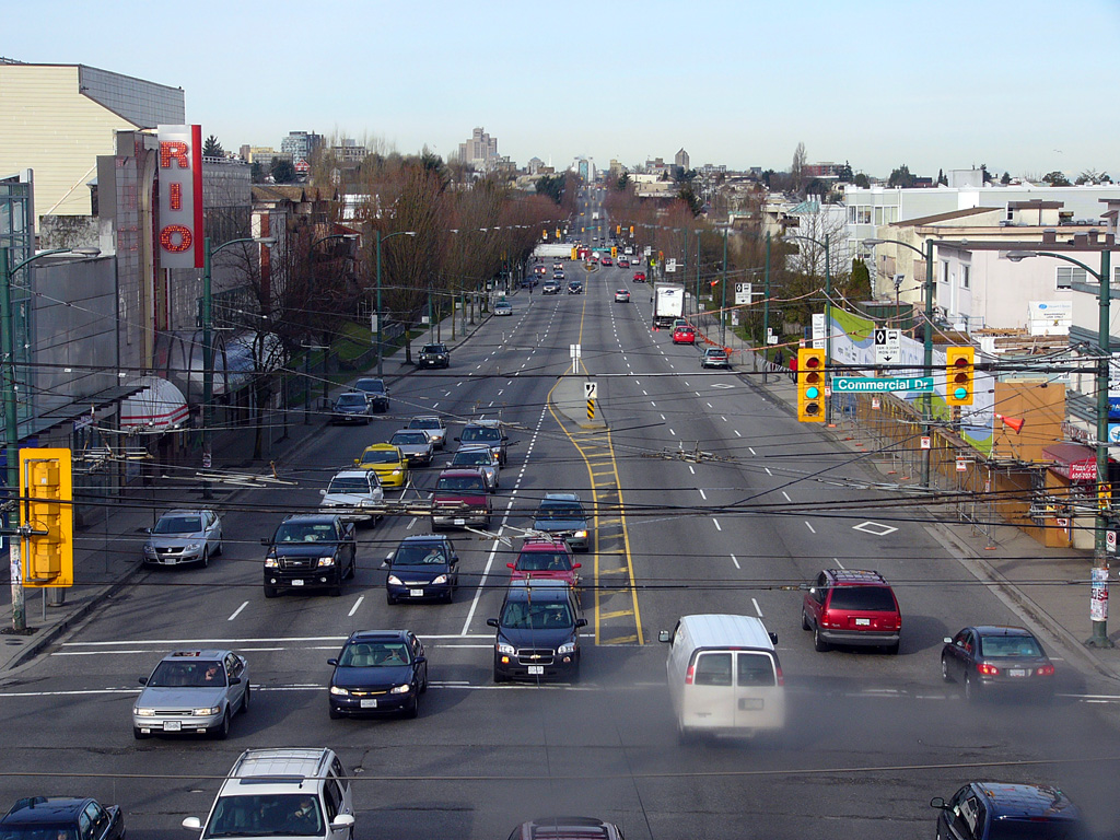 West Broadway at the intersection of Commercial Drive in Vancouver (taken from Broadway Skytrain Station)